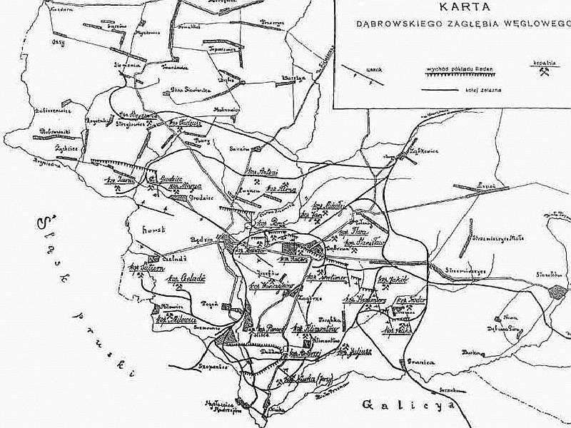 Map of the Dąbrowskie Coal Field (1918)